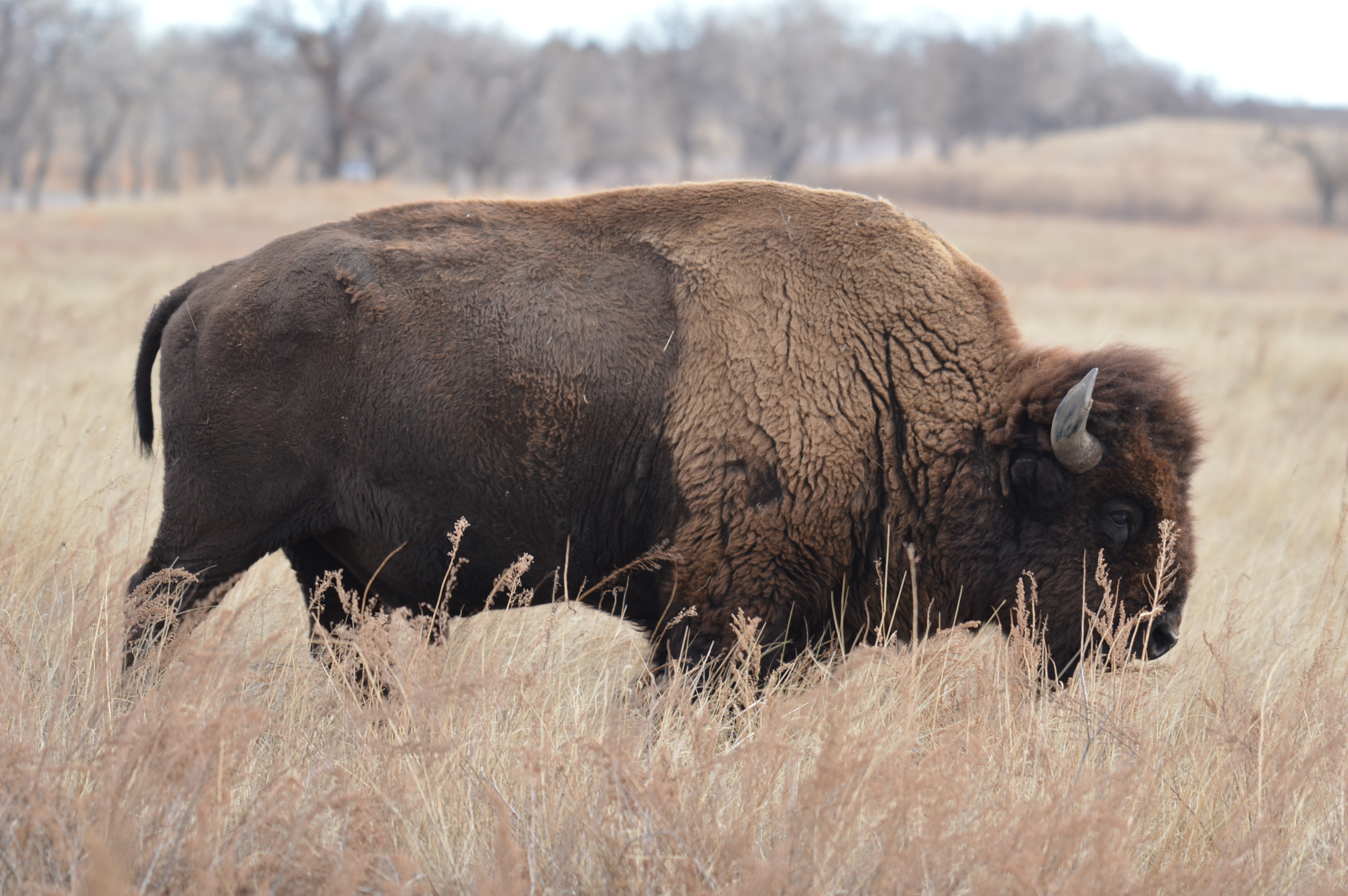 Credit: Ryan Moehring / USFWS